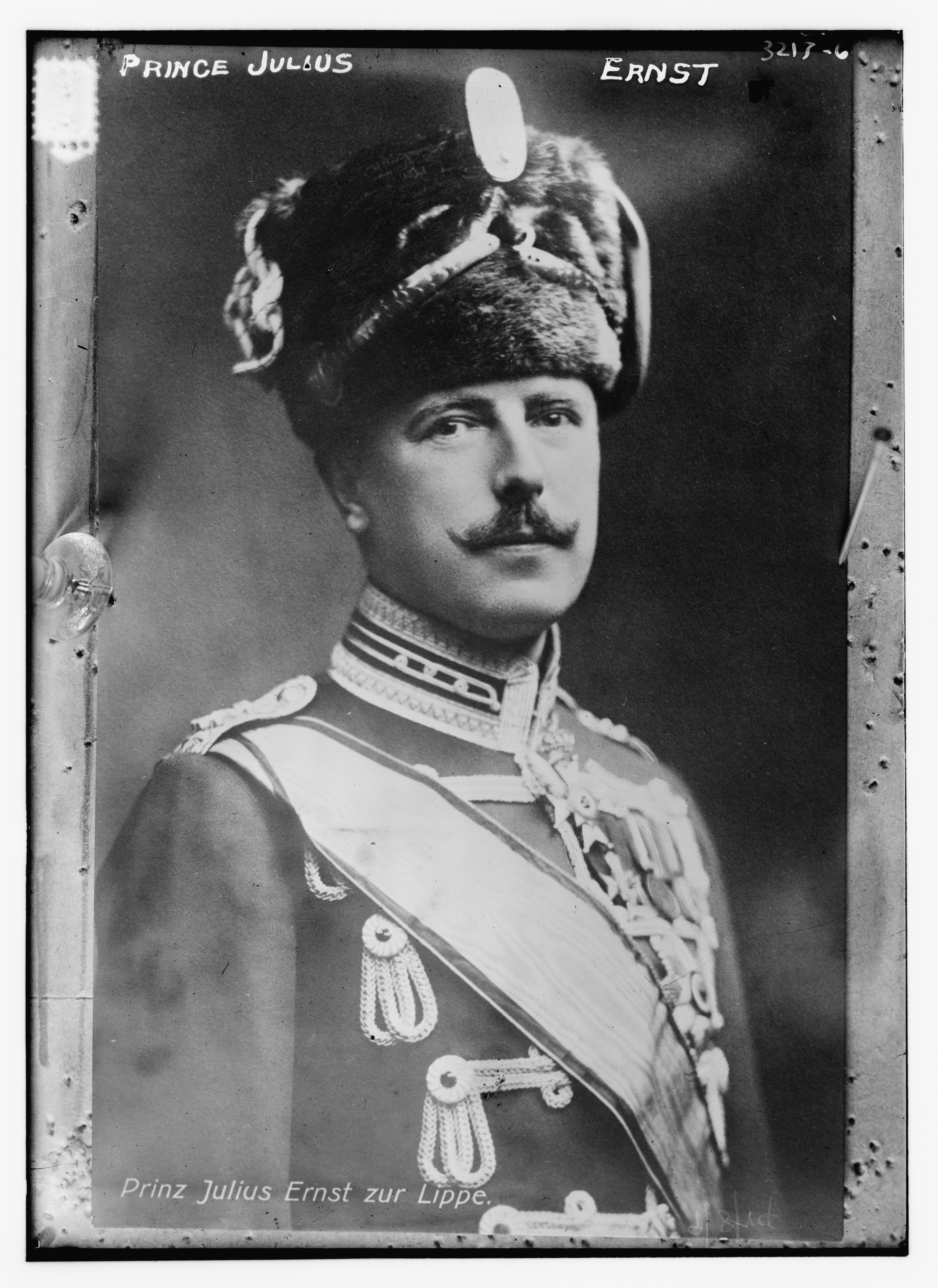 Title: Prince Julius Ernst Abstract/medium: 1 negative : glass ; 5 x 7 in. or smaller.